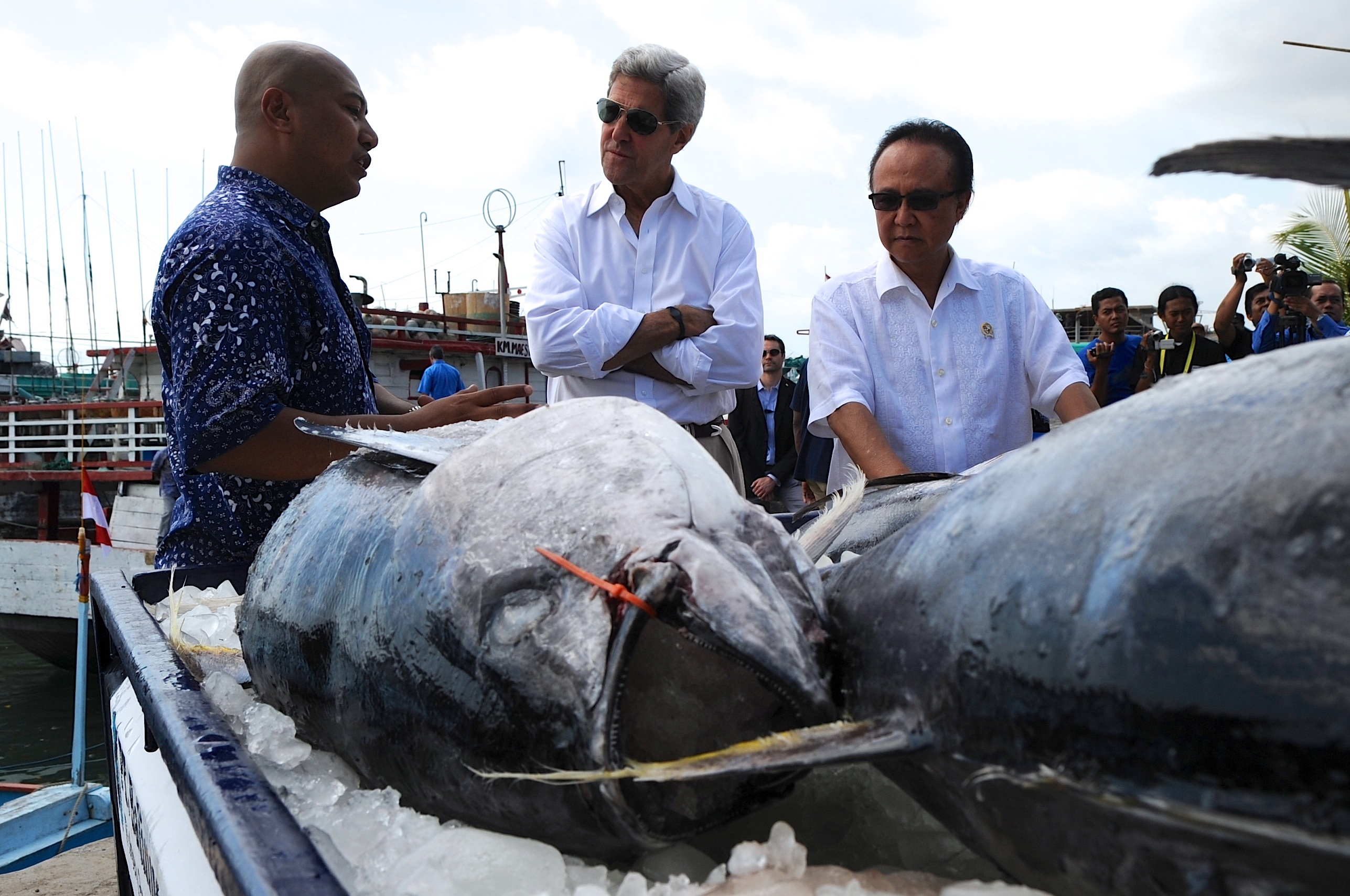 U.S. Secretary of State John Kerry listens as Aditya Utama, director of the non-governmental organization Fishing and Living program, and Sharif Cicip Sutardjo, Indonesian Minister of Marine Affairs and Fisheries, provide a briefing on a sustainable tuna fishing operation supported by USAID in Bali, Indonesia, October 6, 2013. [State Department photo/ Public Domain]